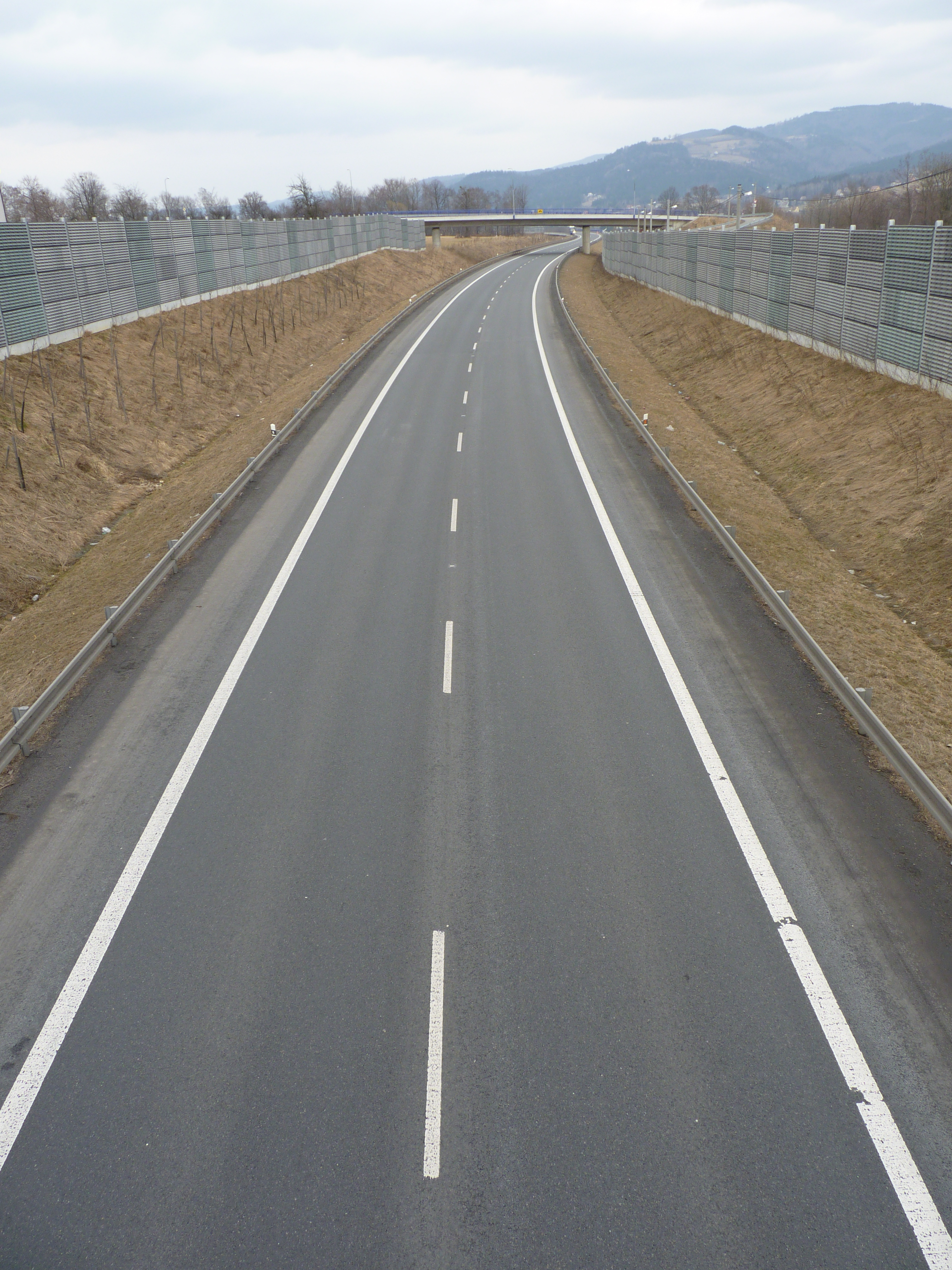 Road E75 near Jablunkov, Czech Republic